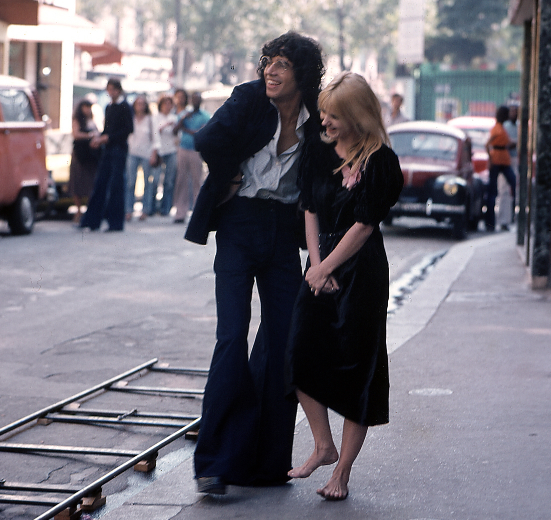 Miou-Miou with Julien Clerc during the filming of "D'Amour et d'eau fraîche", Paris, 1975